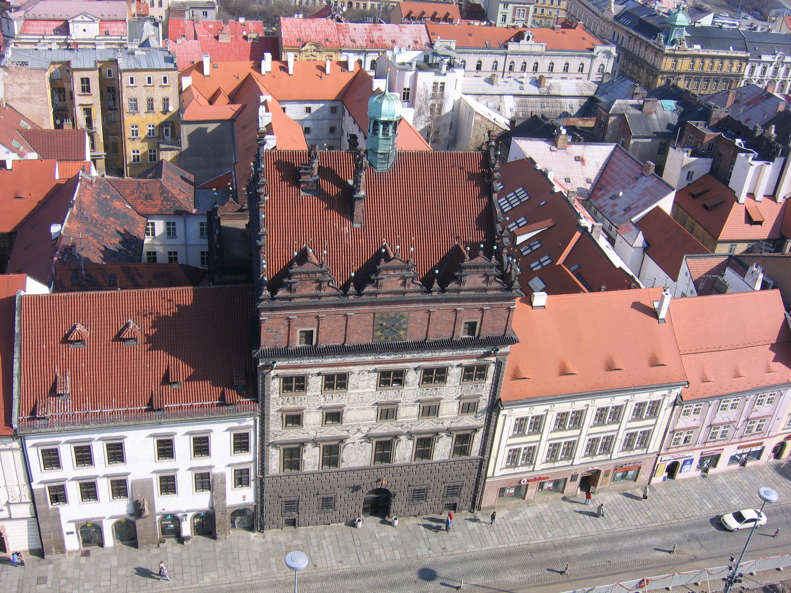 City of Plzeň, Czech Republic. Pilsen, Tschechien. View from the tower of the St. Bartholomew Church at the main square "Namesti Republiky".